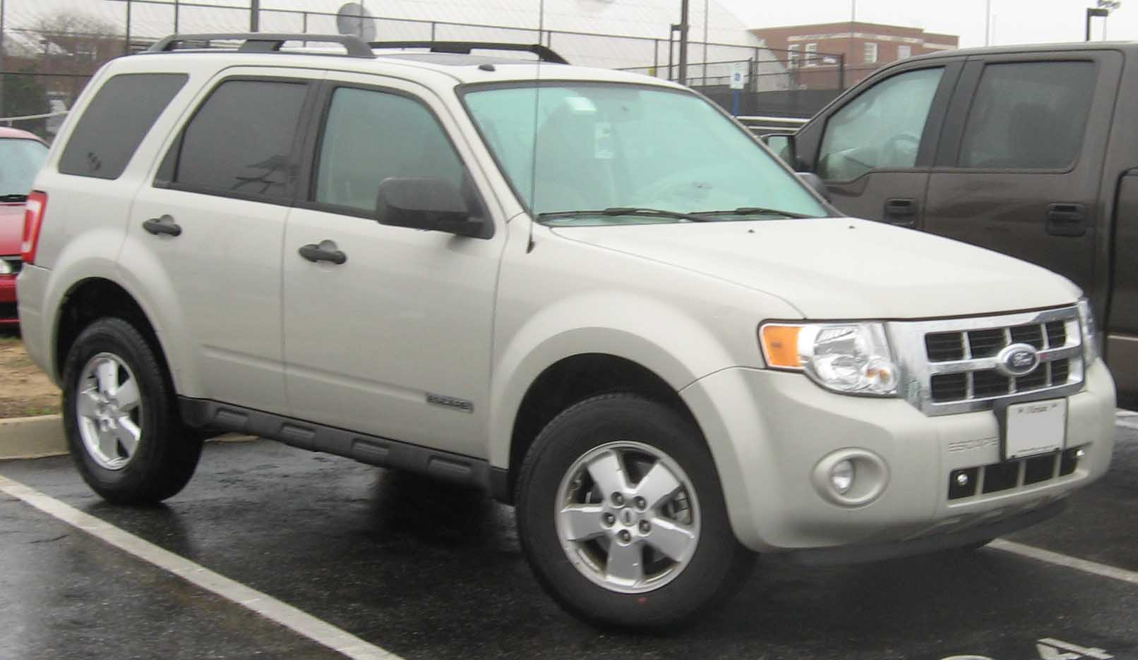 2008 Ford Escape photographed in College Park, Maryland, USA.